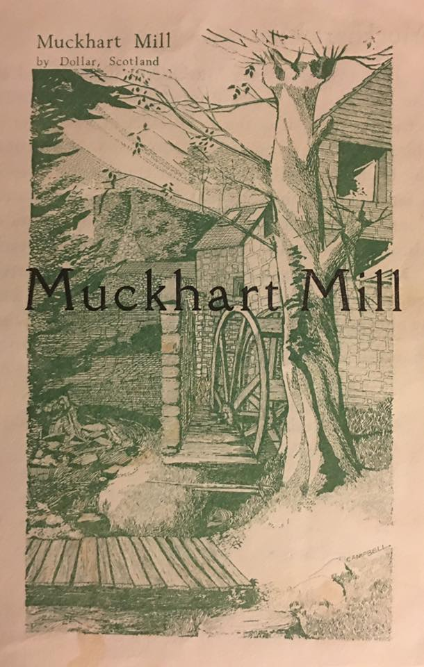 Muckhart Mill Holiday home Brochure page 1